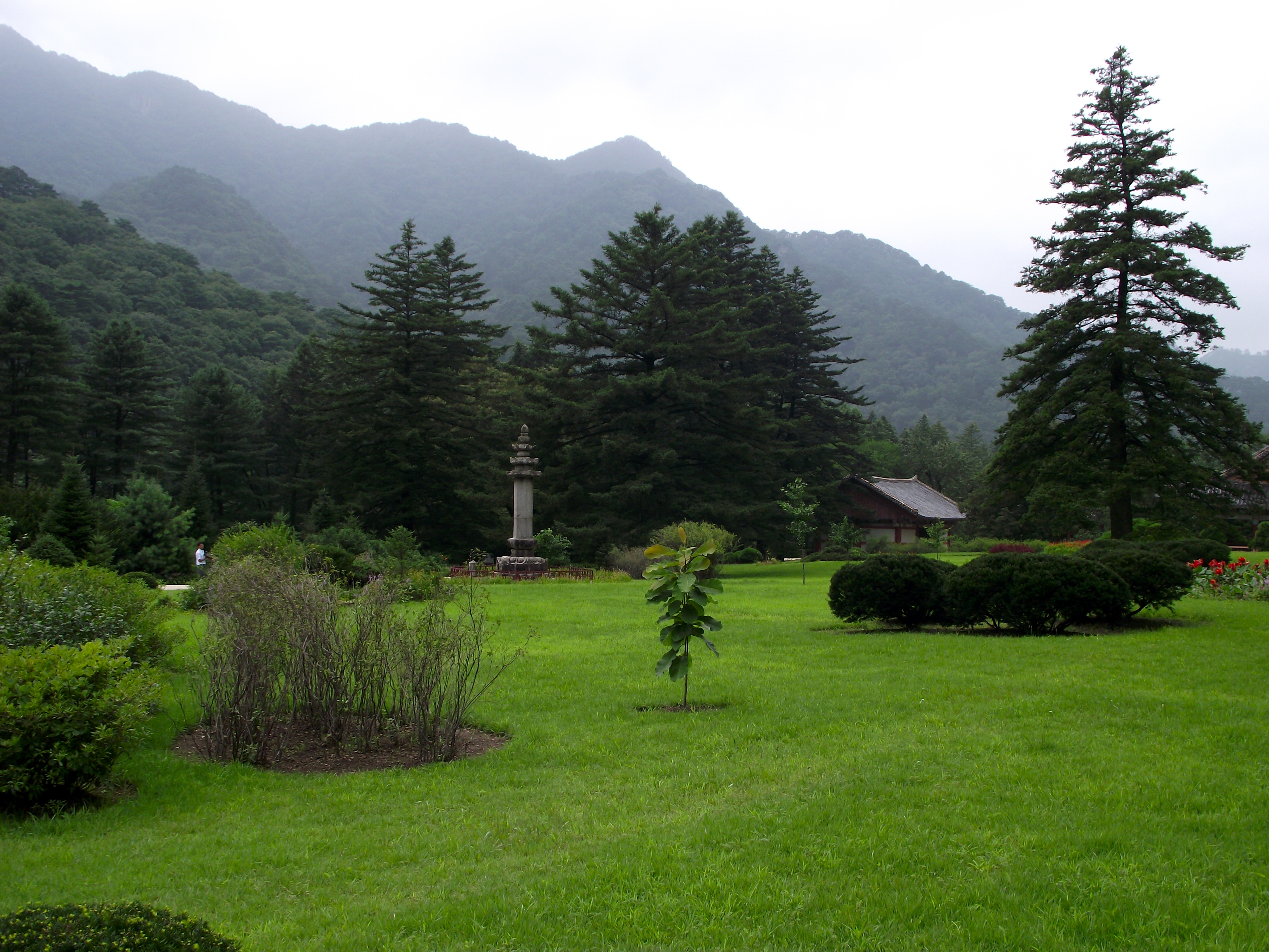 Pohyon Temple (Buddhist), Mount Myohyang - North Korea.